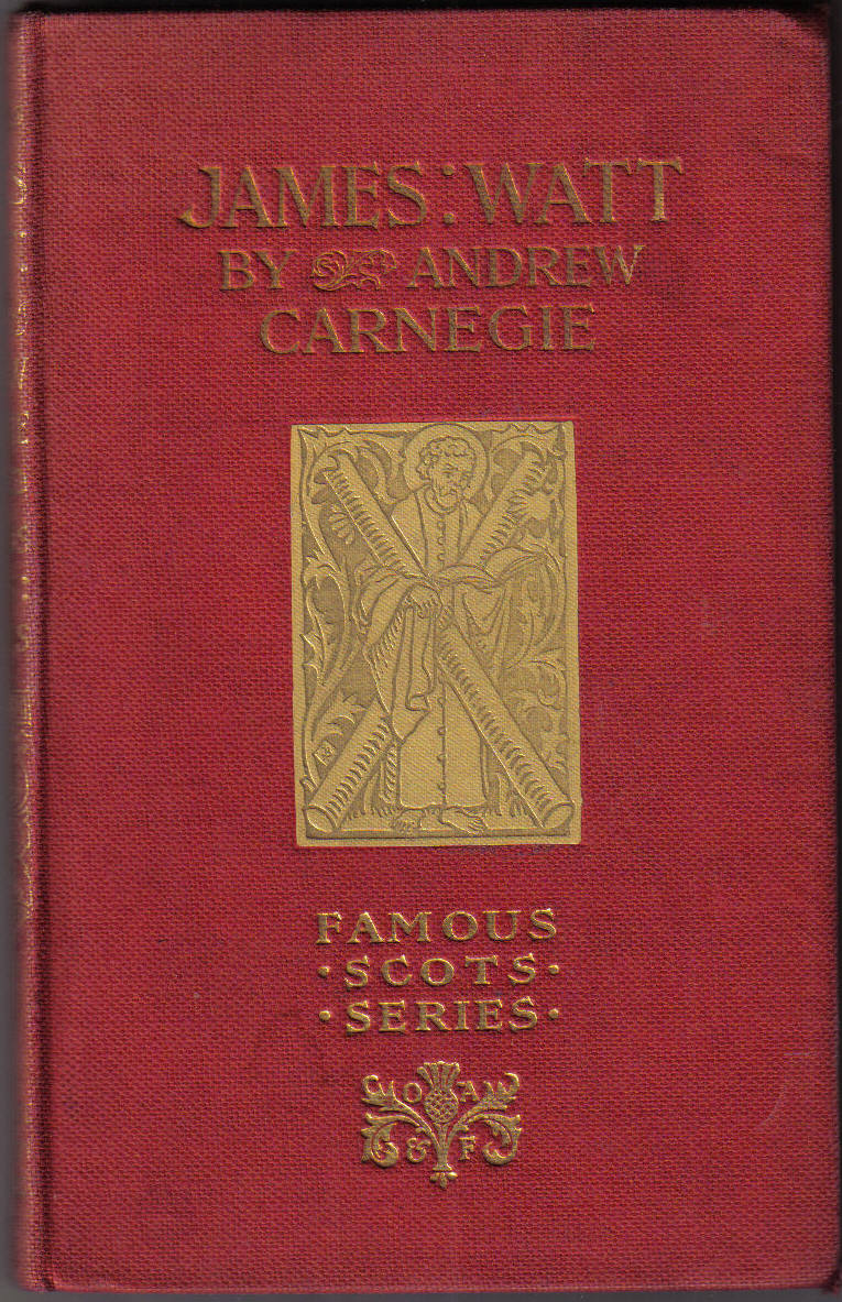 This image is a scan of the front cover of my own book. It was published and printed in 1905 and is no longer in copyright.